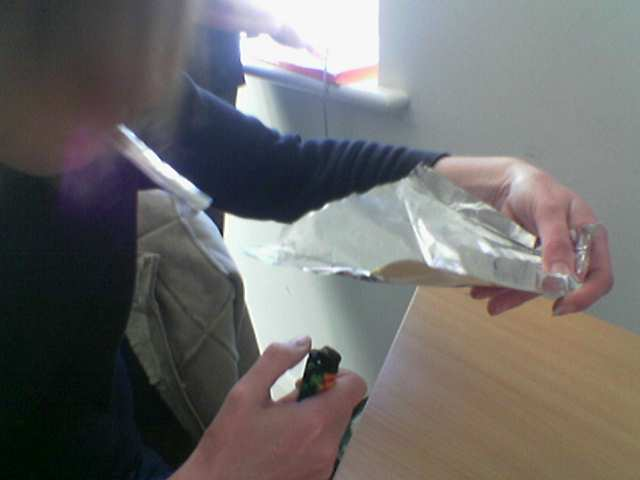 Chasing the Dragon - how heroin is commonly smoked off the foil (Simulation using crushed sugar at a HIT org training event). Heroin is commonly mixed or "cut" with powdered paracetamol or caffeine powder as both of these items run at the same temperature as the heroin does (typically brown heroin in the UK and Europe).